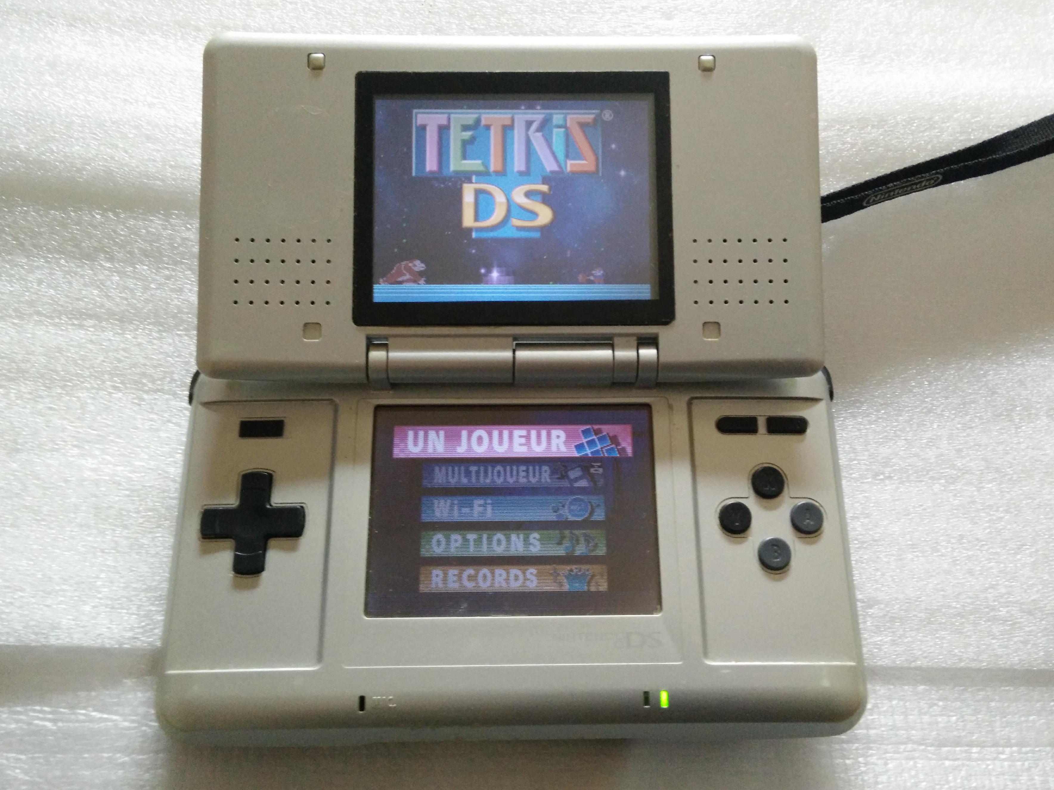 Nintendo DS with Tetris DS being runned